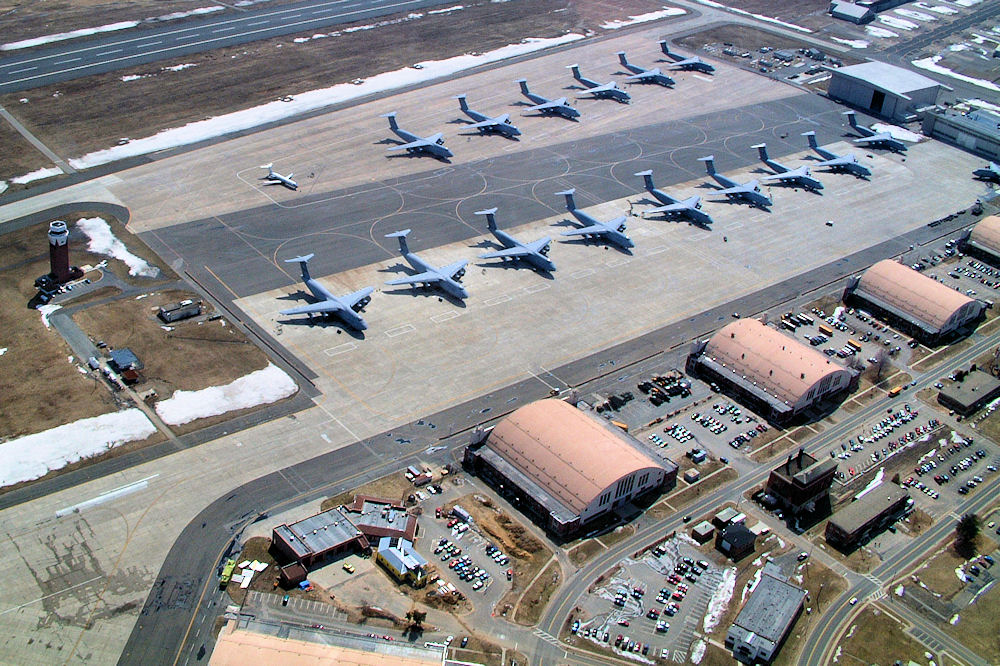 Westover bird's eye view WESTOVER AIR RESERVE BASE, Mass. -- A view of Westover's flightline full of C-5s of the 439th Operations Group from a Mass. State Police helicopter. (U.S. Air Force photo by Master Sgt. W.C. Pope)